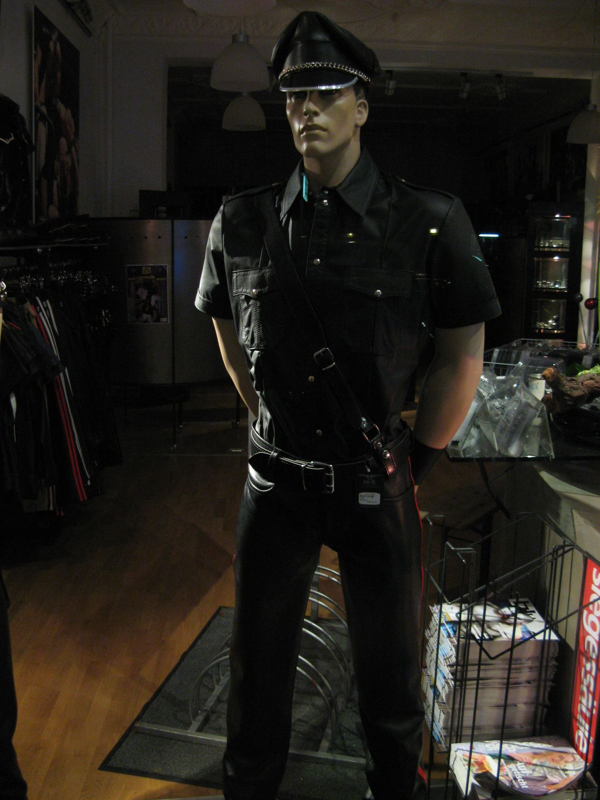 Berlin Fetish Shop Schöneberg Gay District